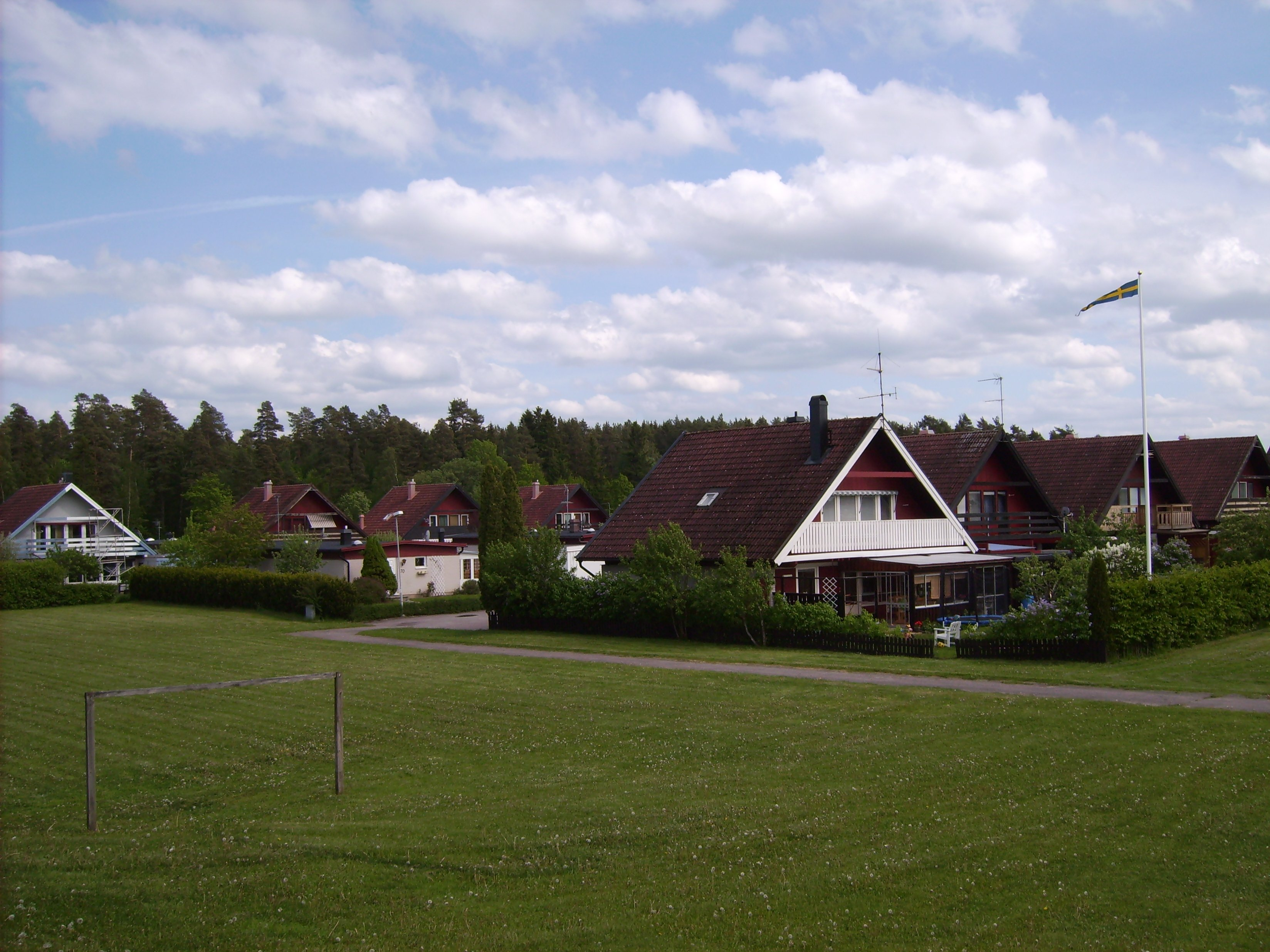 The urban district Linghem with around 2500 inhabitants